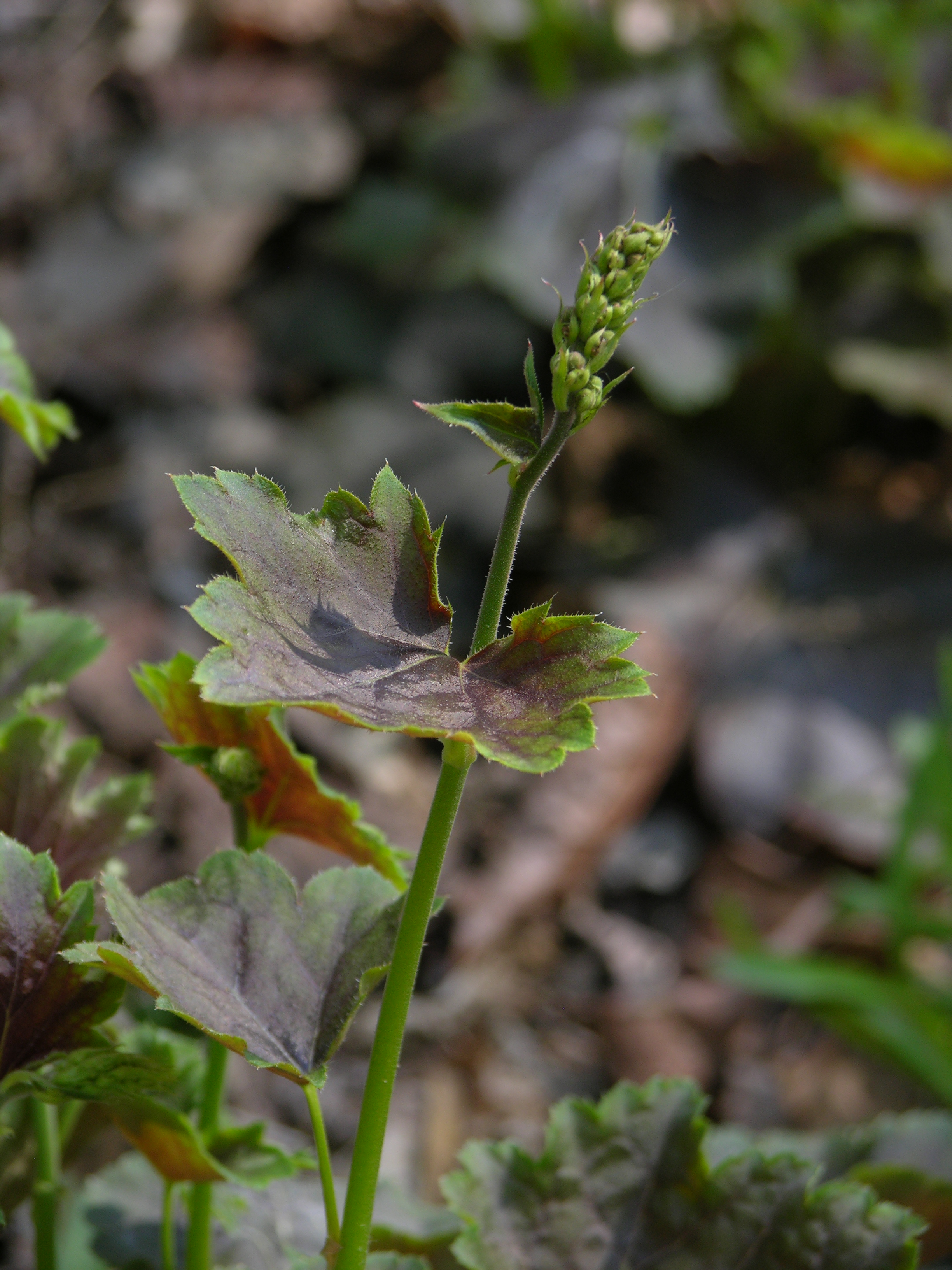 Photograph of a stalk of the American Alumrooten (Heuchera americana en 'Garnet'). Photo taken at the Mt. Cuba Center where it was identified.